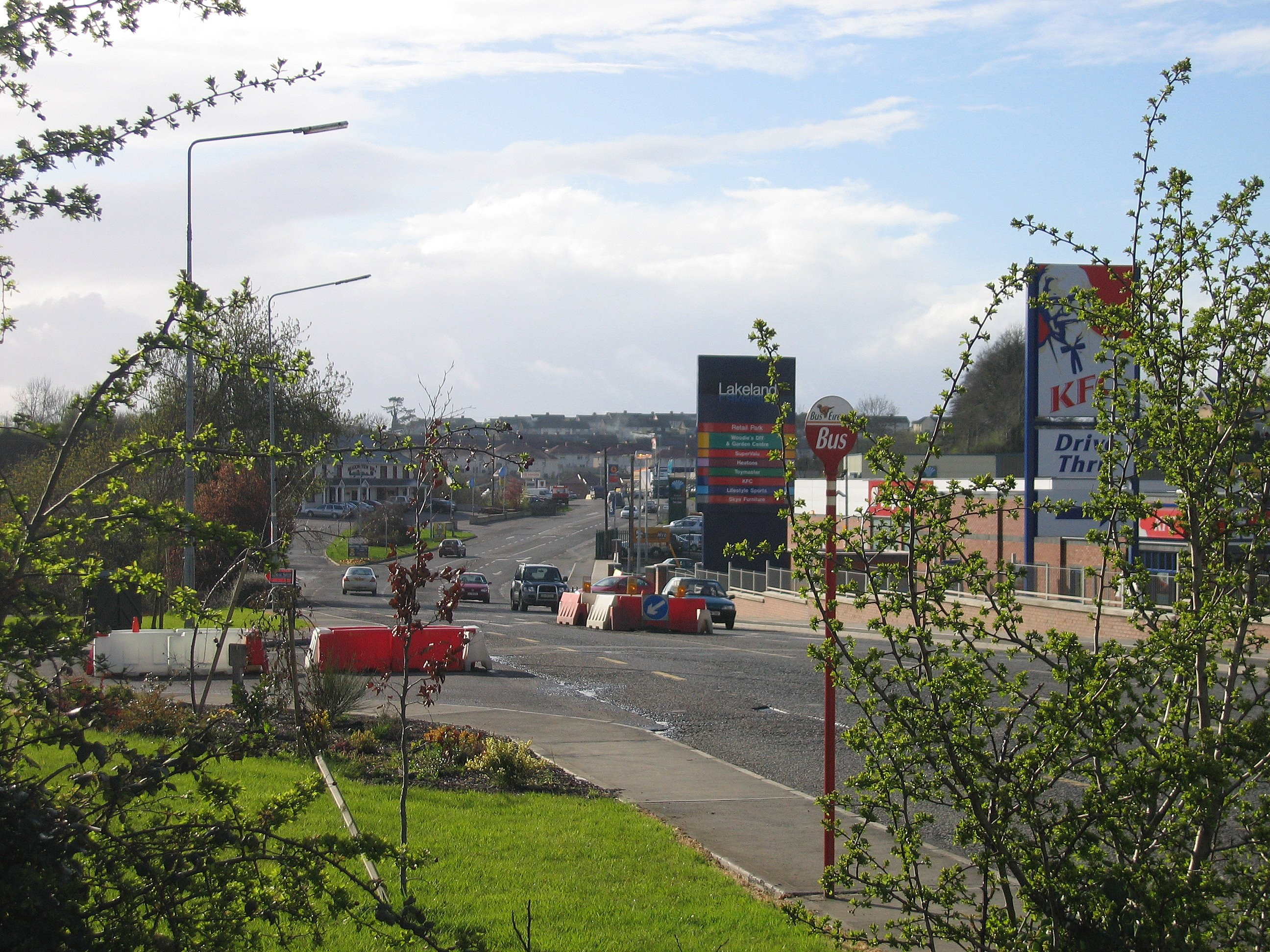 Cavan Town 2005; the roadworks were still there in November 2008!